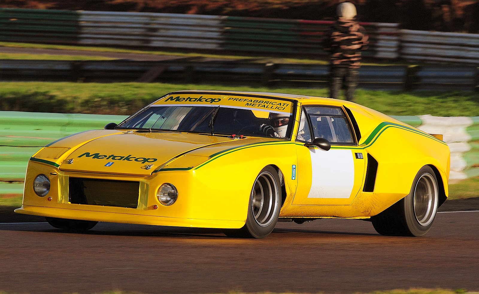 A race-prepared De Tomaso Pantera, on test at Mallory Park, December 2008.